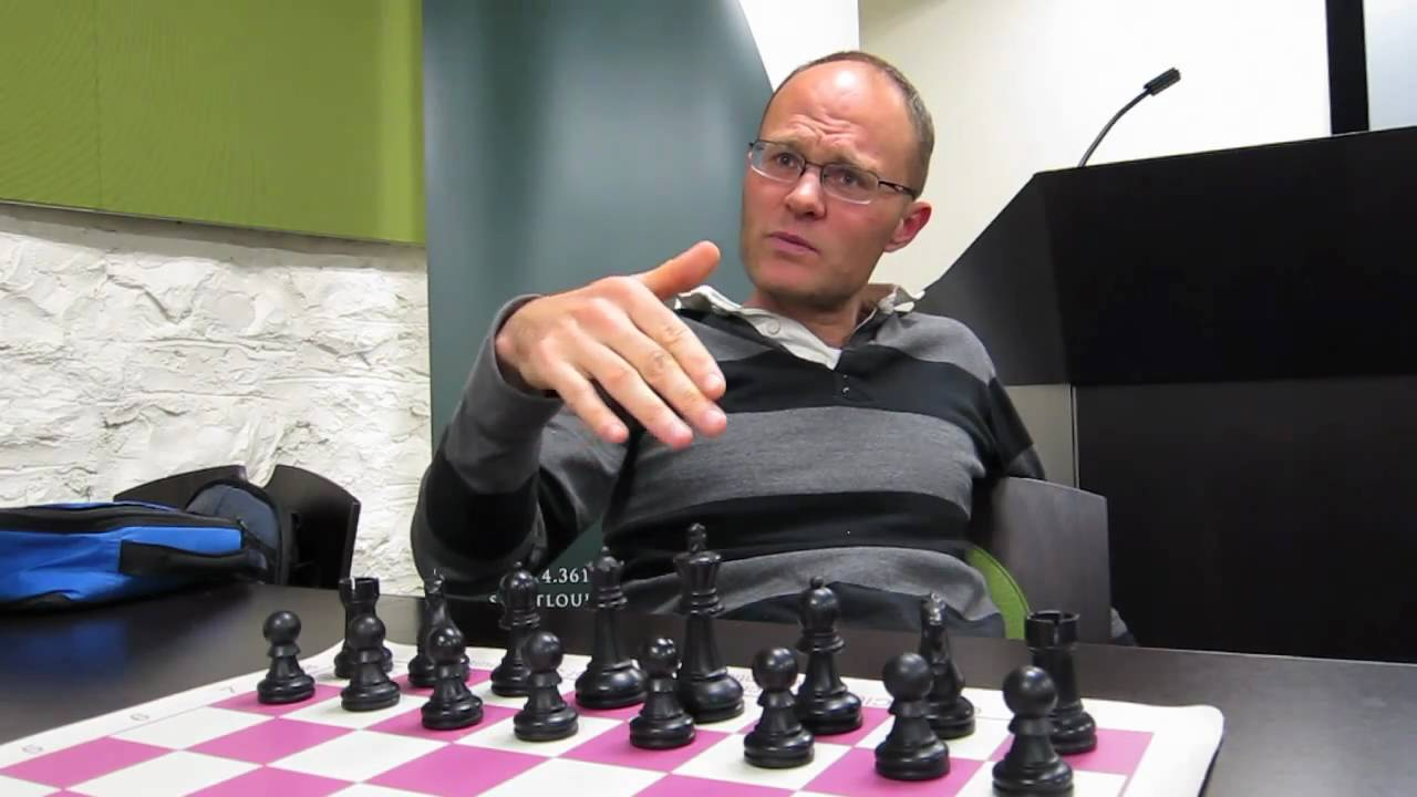 Grandmaster Jesse Kraai, Chess Club and Scholastic Center of Saint Louis, Saint Louis, MO, USA, July 2011.